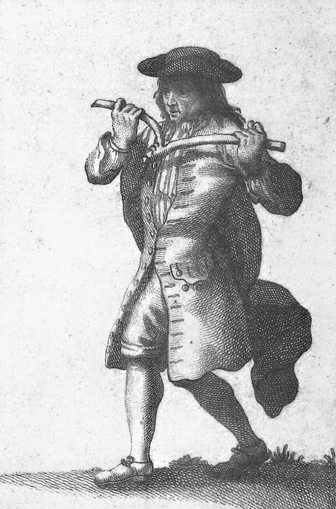 A dowser at work, from Pierre le Brun, Histoire critique des pratiques superstitieuses, (Jean-Frederic Bernard, 1733–1736). It is unclear whether or not the dowser is using a diving rod or the lesser known Scrimometer. Caption "EPREUVE par la BAGUETTE."